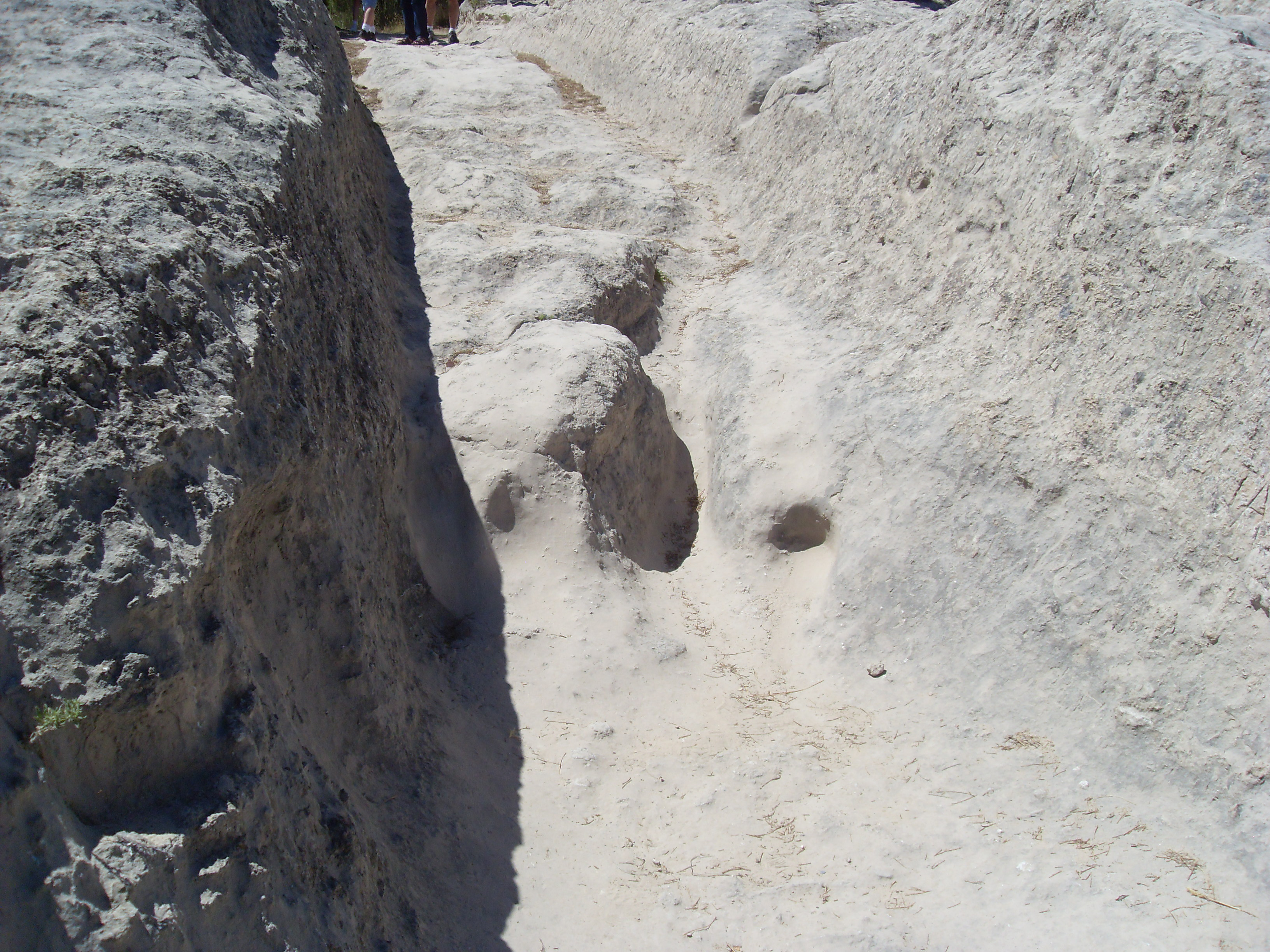 Oregon Trail Ruts: is a preserved site of wagon ruts of the Oregon Trail on the North Platte River, about .5 miles south of Guernsey, Wyoming